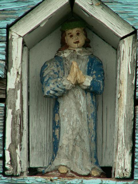 Narmontai, Kretinga district, LithuaniaLietuvių: Angelo skulptūra Litvinienės koplytėlėje, Kretingos rajonas, Lietuva